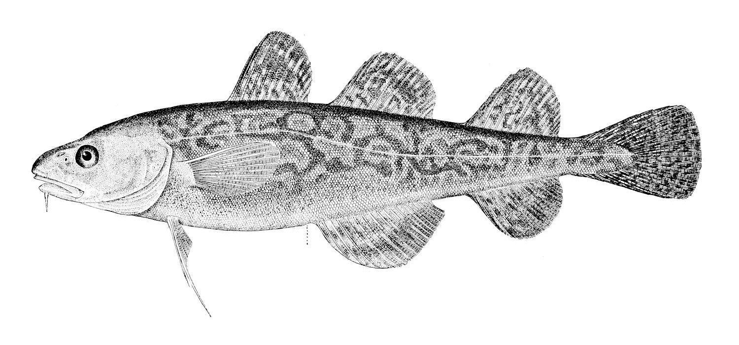 The Atlantic Tom Cod, Microgadus tomcod. The speciemen #17733, U.S. National Museum, collected at at Wood's Holl, Mass., by Vinal N. Edwards on December 23, 1875.